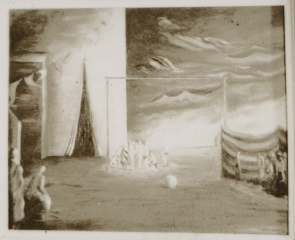 This 1940 photo of the prize-winning painting by Victor George O'Connor is part of a collection of contact prints, depicting aspects of the artist's life and the artistic community in Melbourne, 1930-1945.